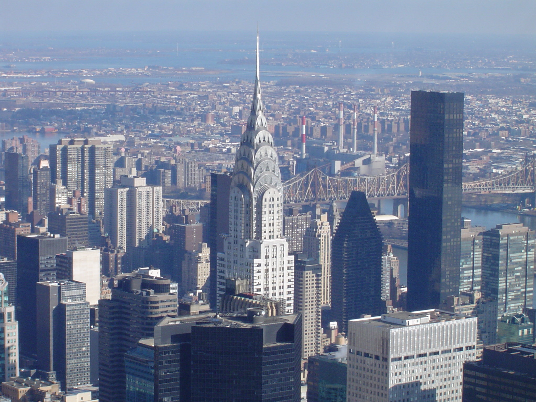 Chrysler Building, seen from the Empire State Building. Made by Joris van Rooden on 09-01-2005